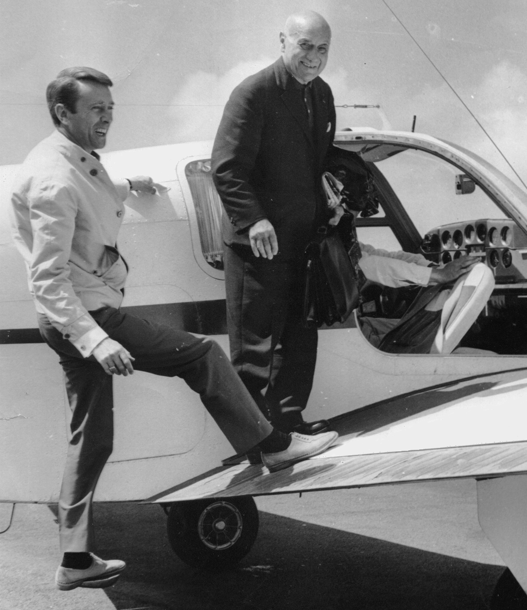 Jean Nohain and Gilbert Richard, french television pionieers in 1969 (They were at this time presenting the TV show Télété), see articles: Jean Nohain and Gilbert Richard